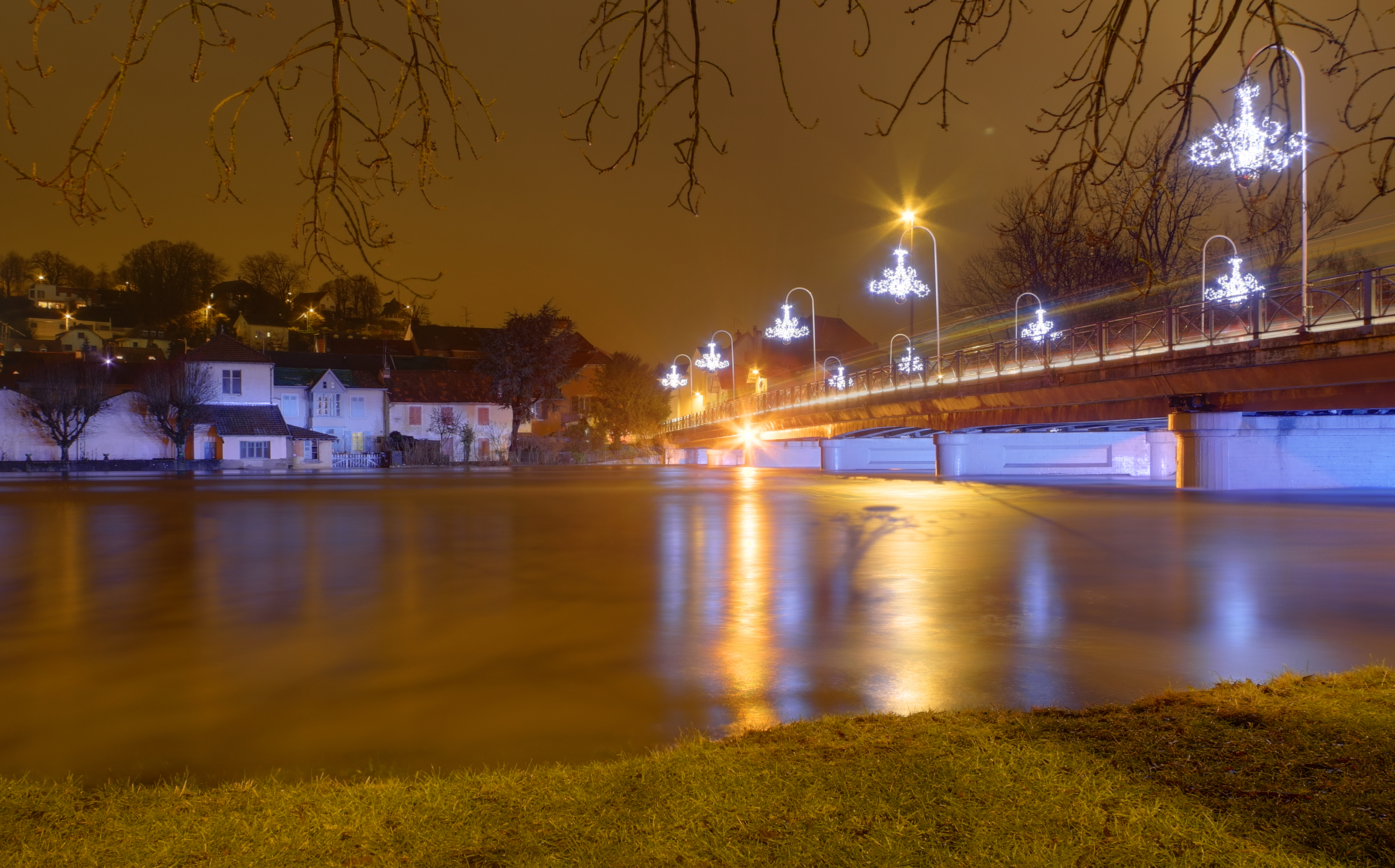 Allan river in spate, in Montbéliard (HDR).